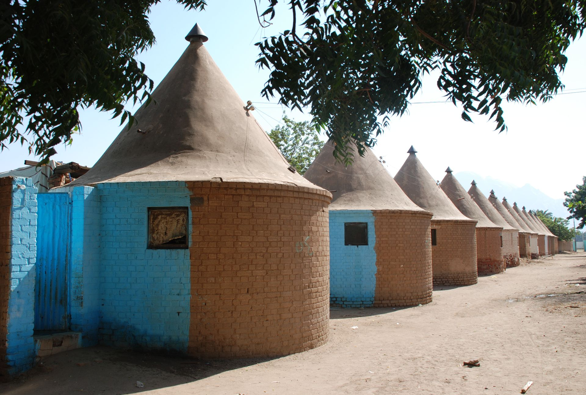 British railway quarter masonry huts - Sikka Hadid, Kassala, eastern Sudan.